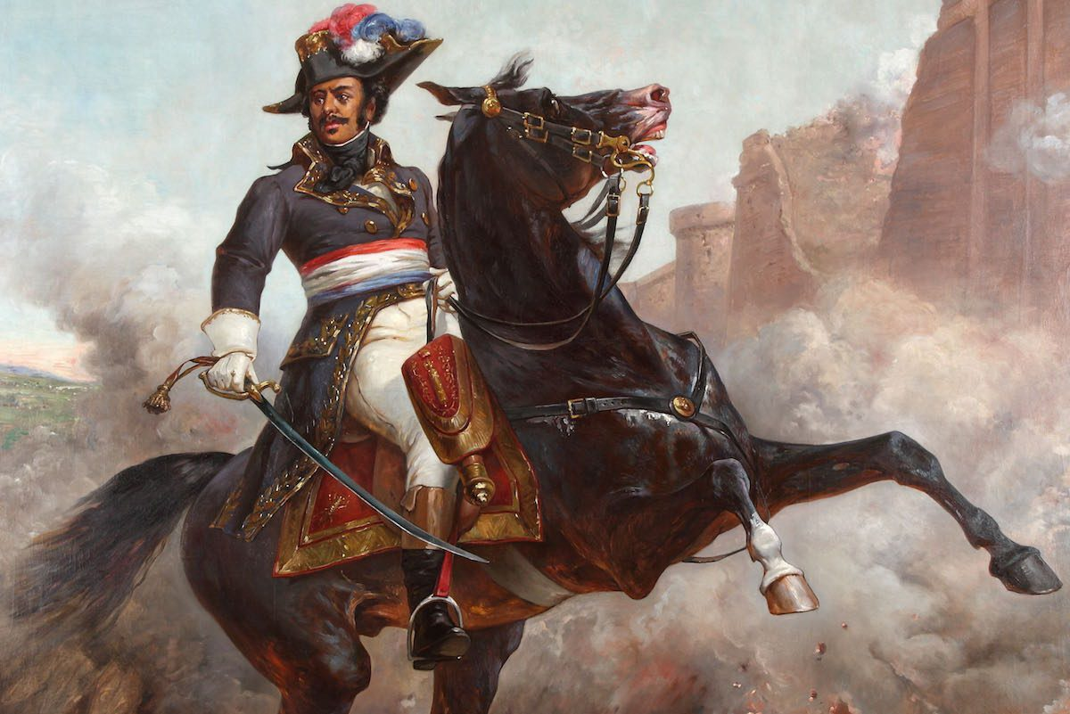 Painting of general-in-chief Thomas-Alexandre Dumas Davy de la Pailleterie (1762-1806), he played a pivotal role in the French Revolutionary Wars